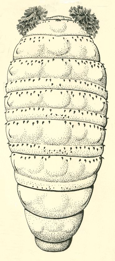 Dermatobia hominis larva dorsal view - The original was done in pen and ink on Bristol board.